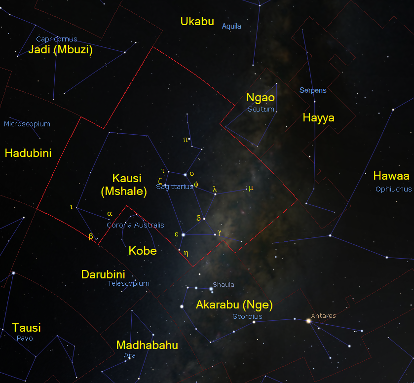 Constellation Sagittarius as seen from Tanzania, Swahili labelled Kiswahili: Kundinyota Kausi (Sagittarius) jinsi inavyoonekana kutoka Tanzania, majina kwa Kiswahili